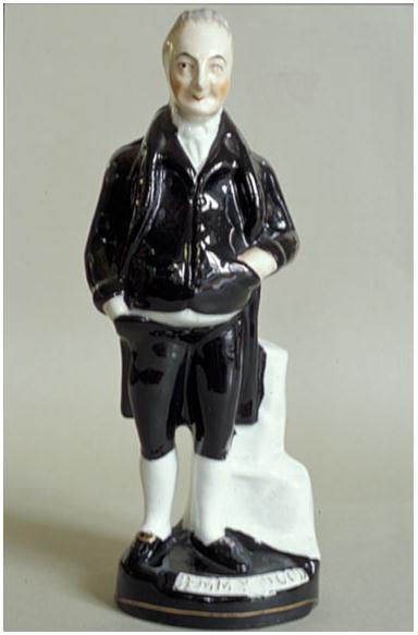 Statuette of the Gloucester Miser, James Wood.